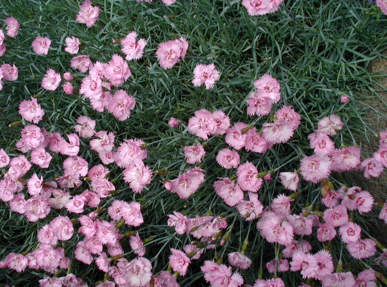 Dianthus plumarius: Flowers and foliage